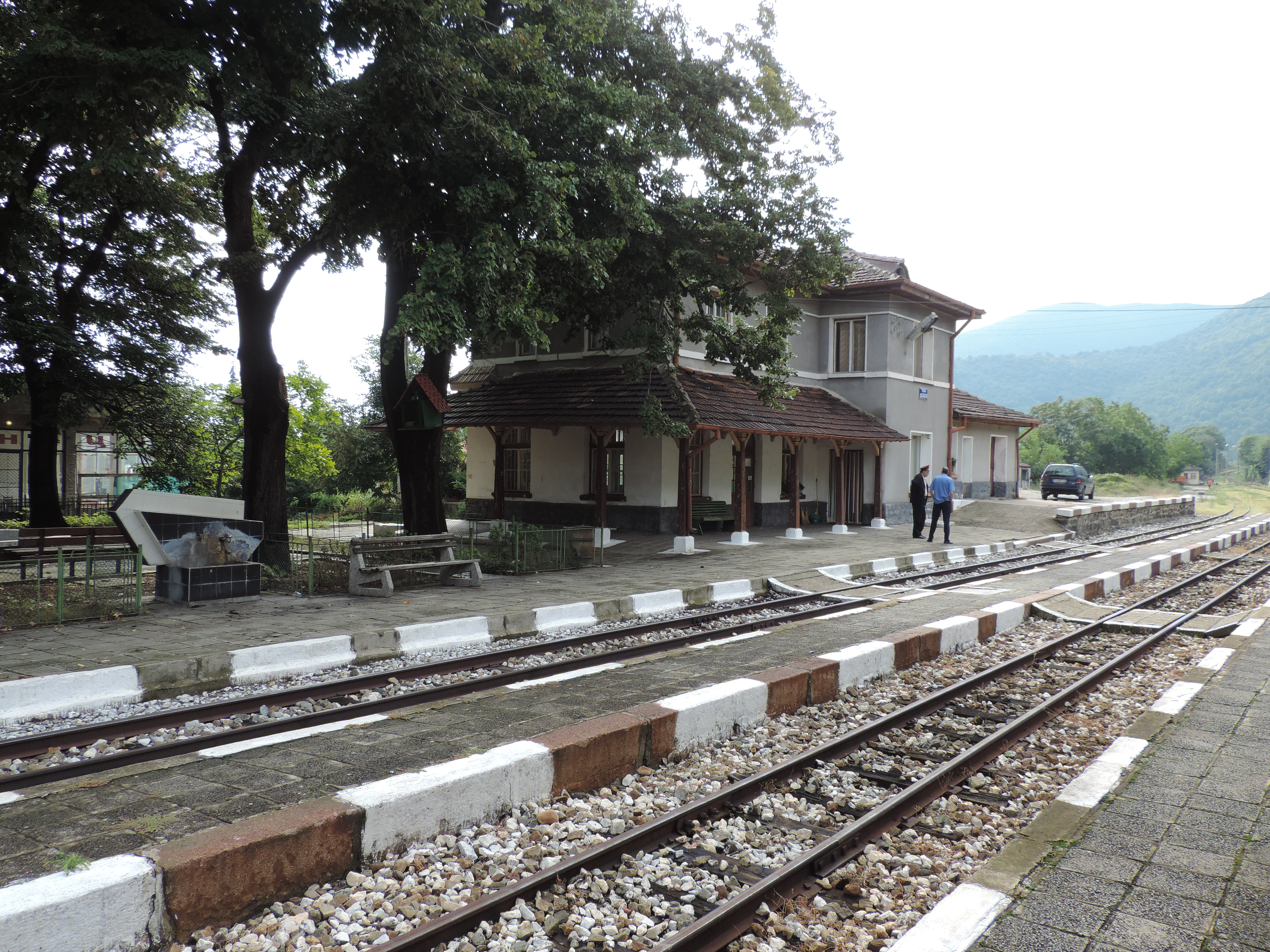 Varvara railway station, Bulgaria, 2014